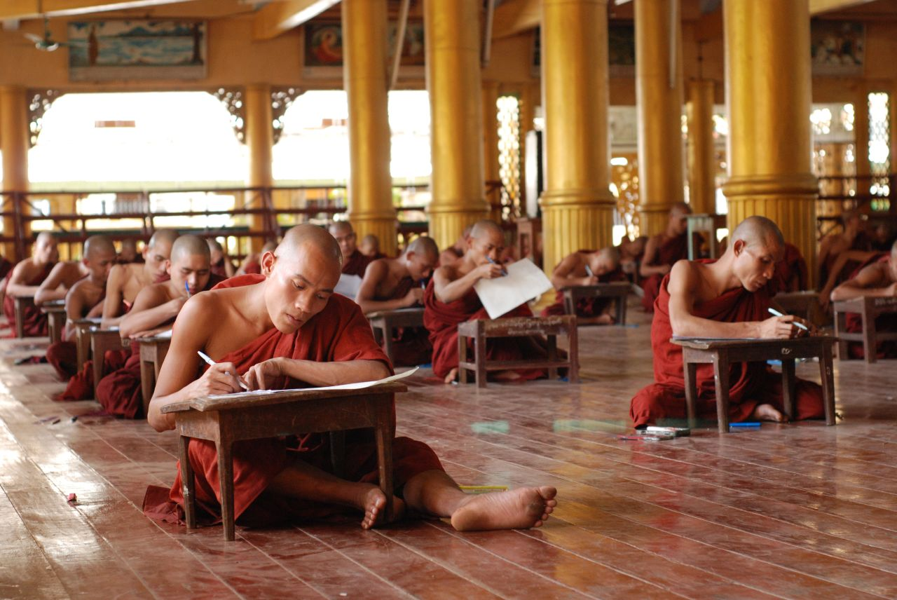 Monk examinations, Bago, Myanmar